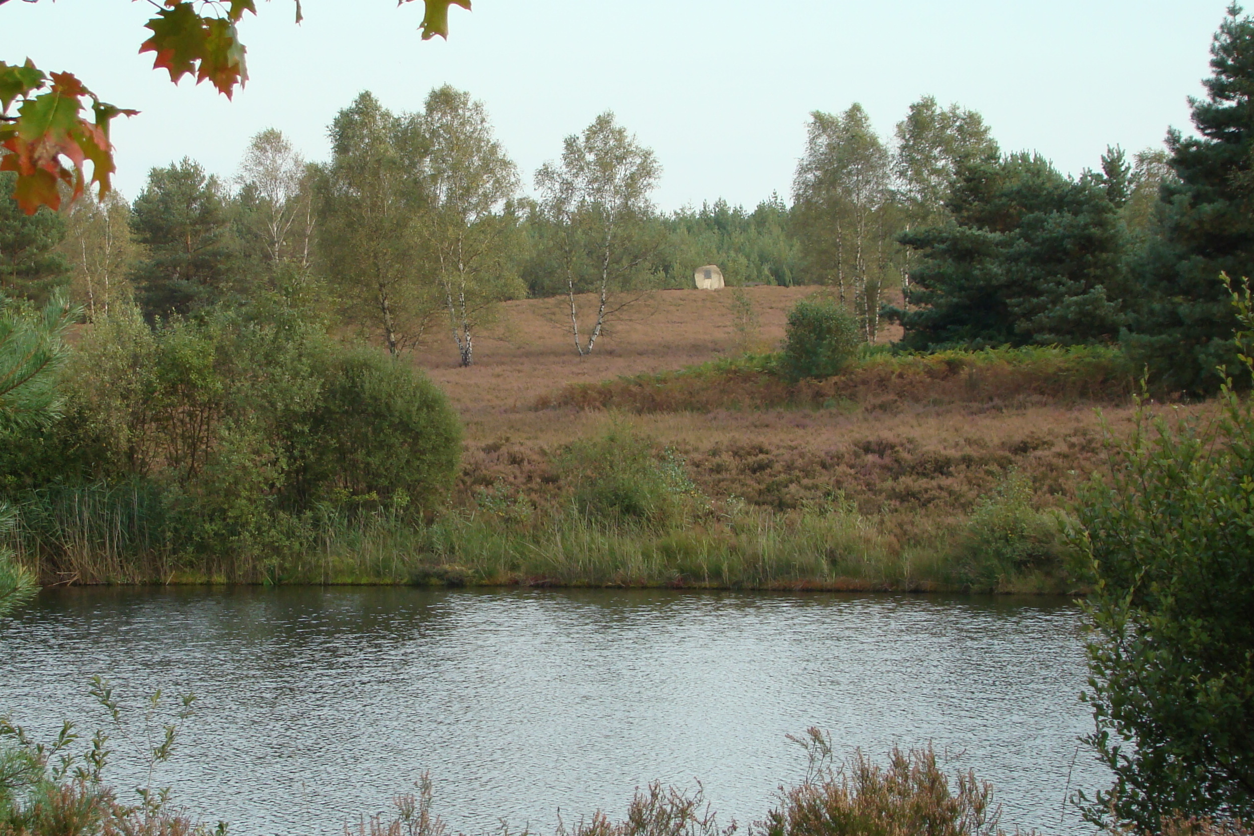 Pond between Oldendorf and Eschede in north Germany with a memorial. The pond was used by fire services to pump water during the fire on the Lüneburg Heath in August 1975